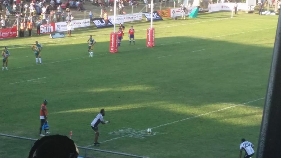 Apisai Naikatini trying to kick the last conversion, Timoci Nagusa (23) looks on2015 Rugby World Cup – Oceania qualification: Fiji vs Cook Islands.